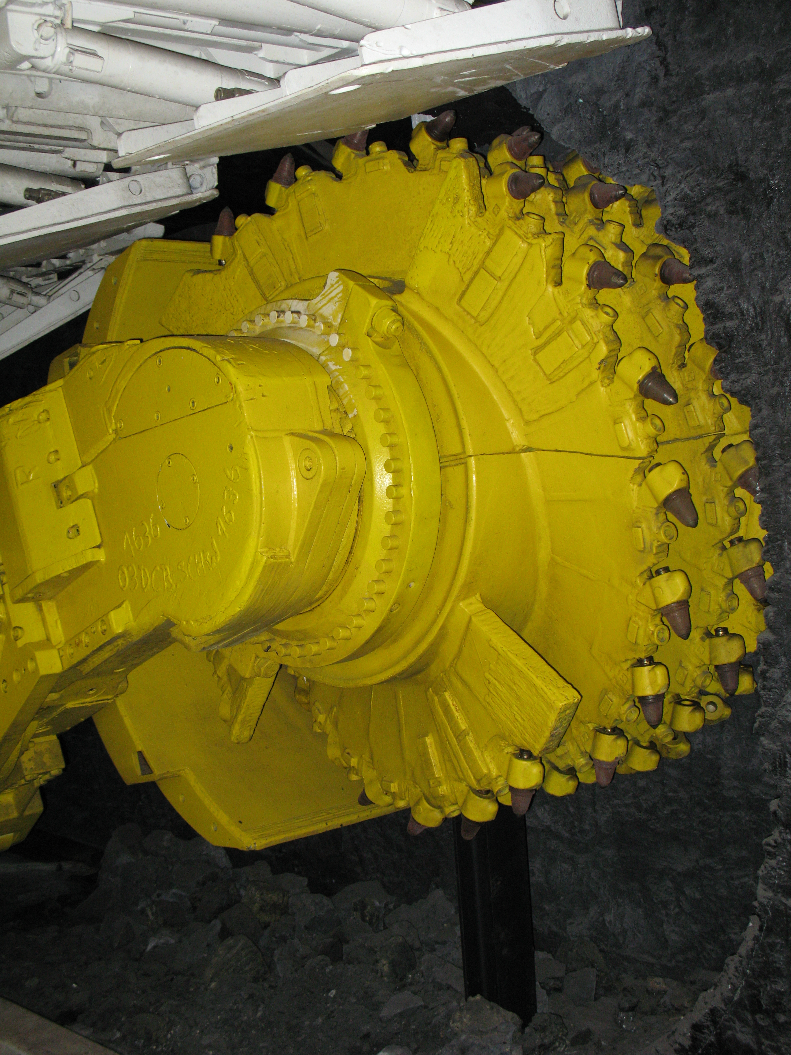 German Mining Museum in Bochum